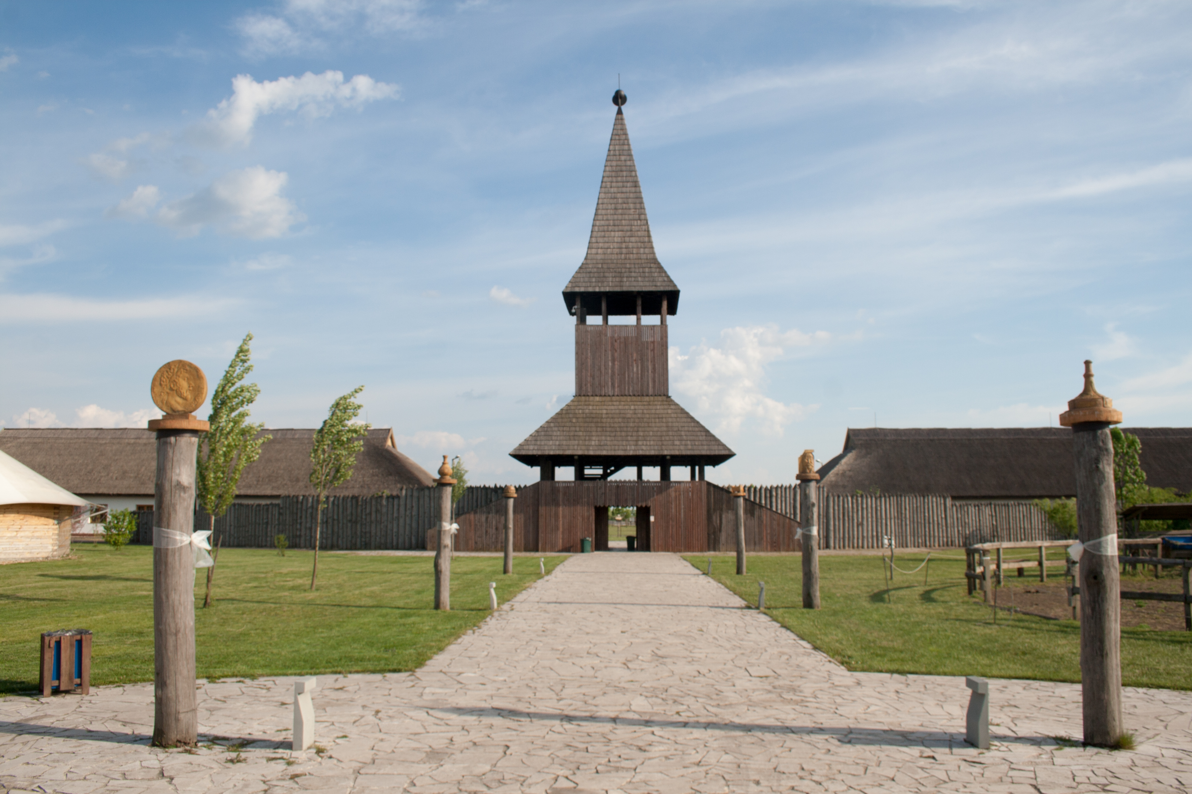 Detail of the museum